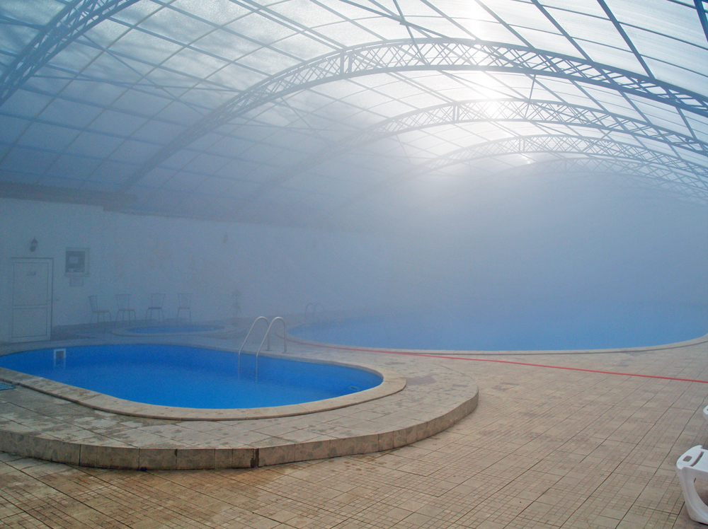 Ognyanovo Delta Hotel Mineral Water swimming pools, Bulgaria